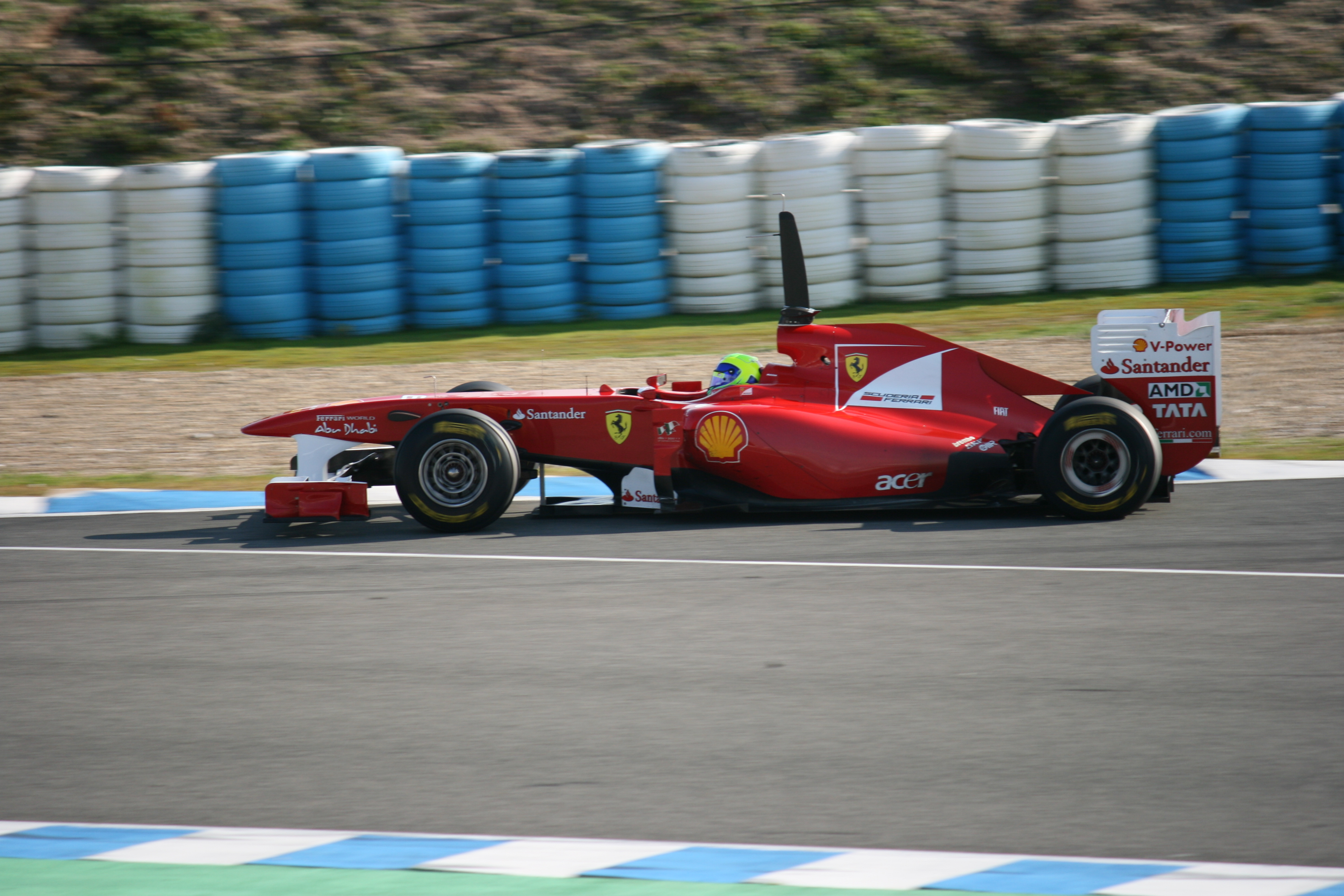 Felipe Massa testing for Scuderia Ferrari at Jerez.